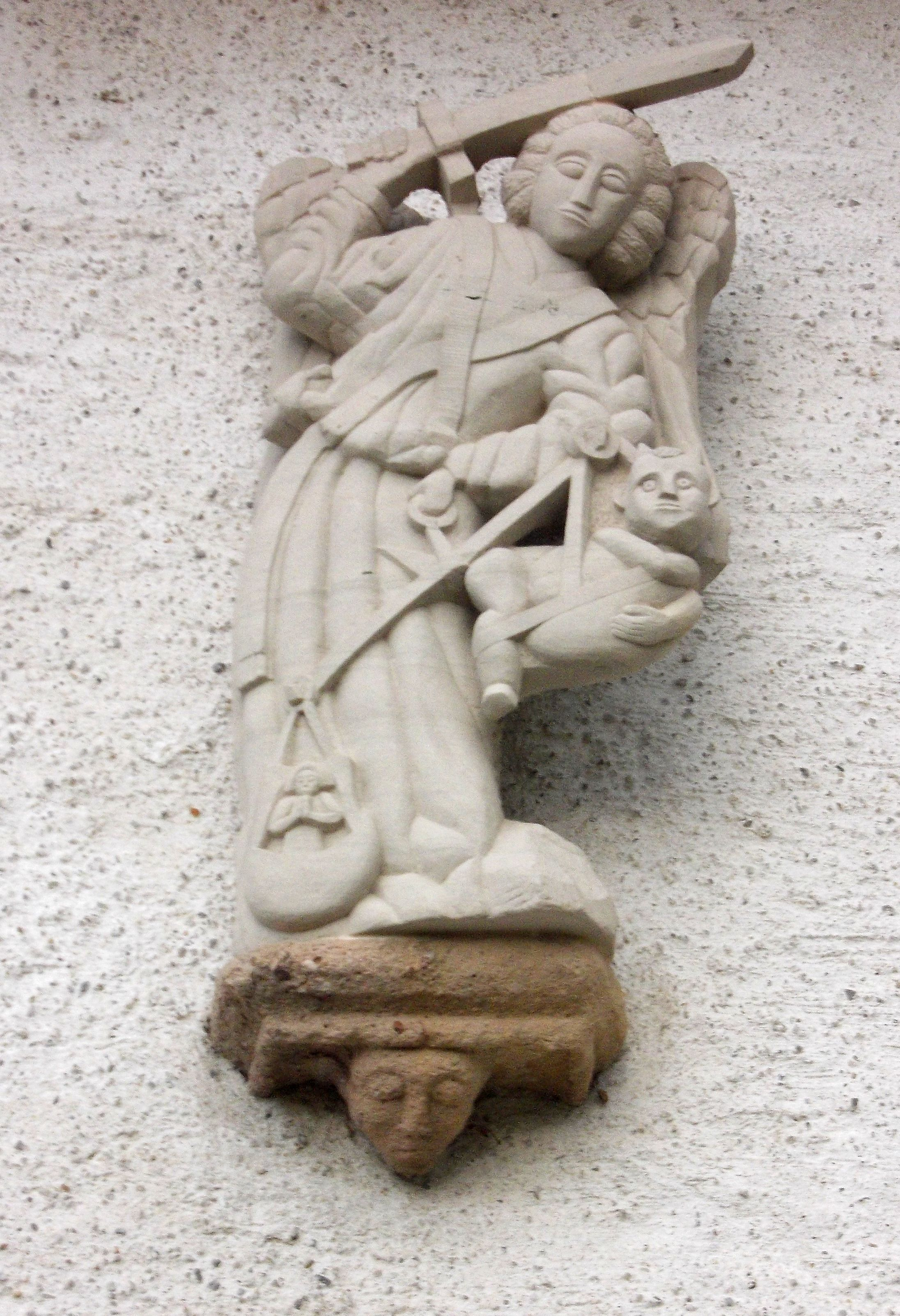 Gerstenberg church (Altenburger Land district, Thuringia)